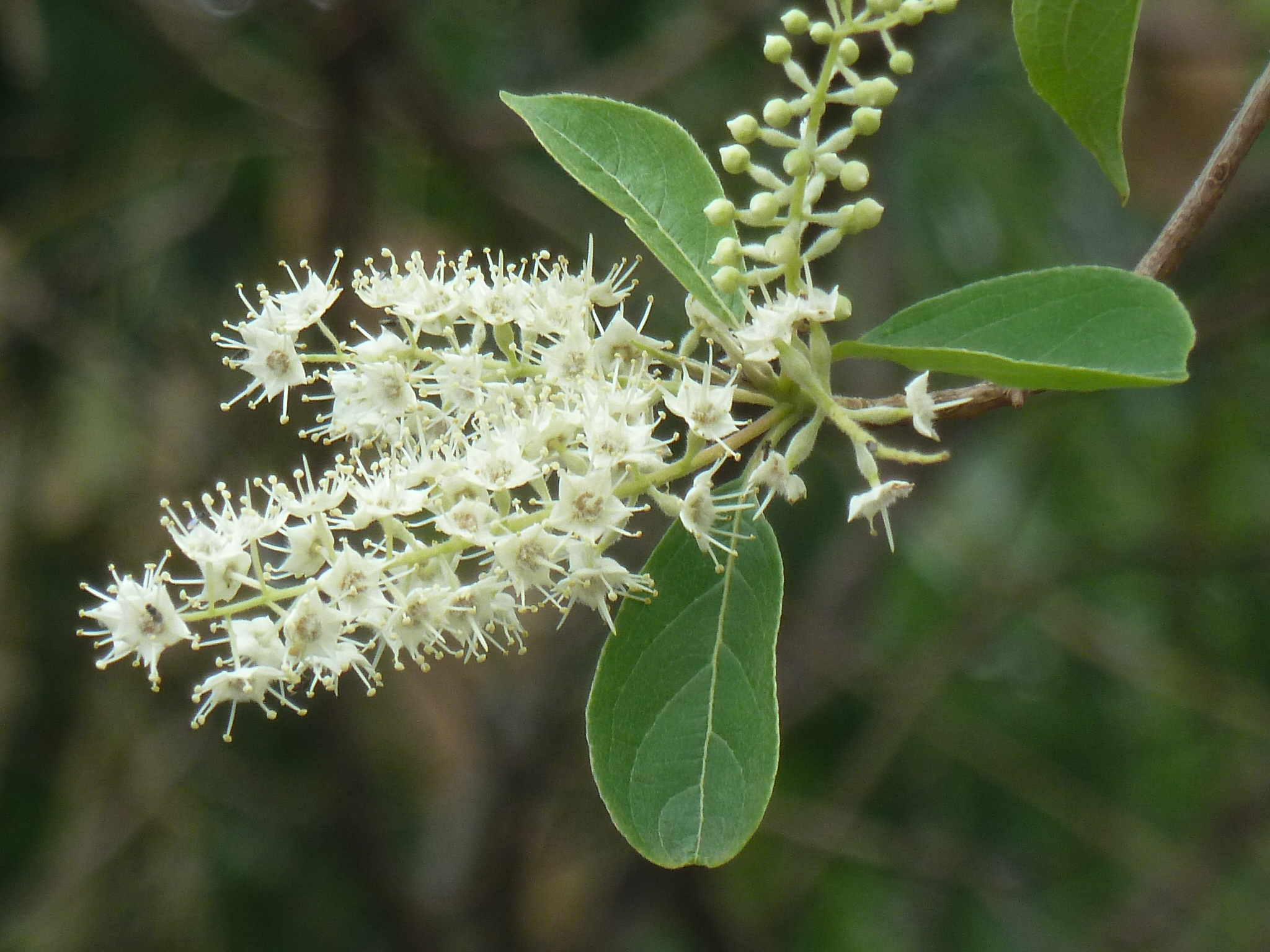 Inflorescences (at different stages) of a Lebombo cluster-leaf in Manie van der Schijff Botanical Garden, Pretoria